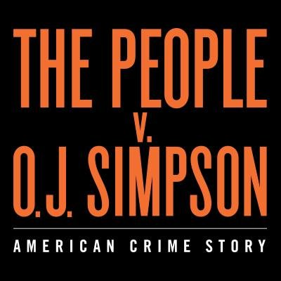 American Crime Story season 1